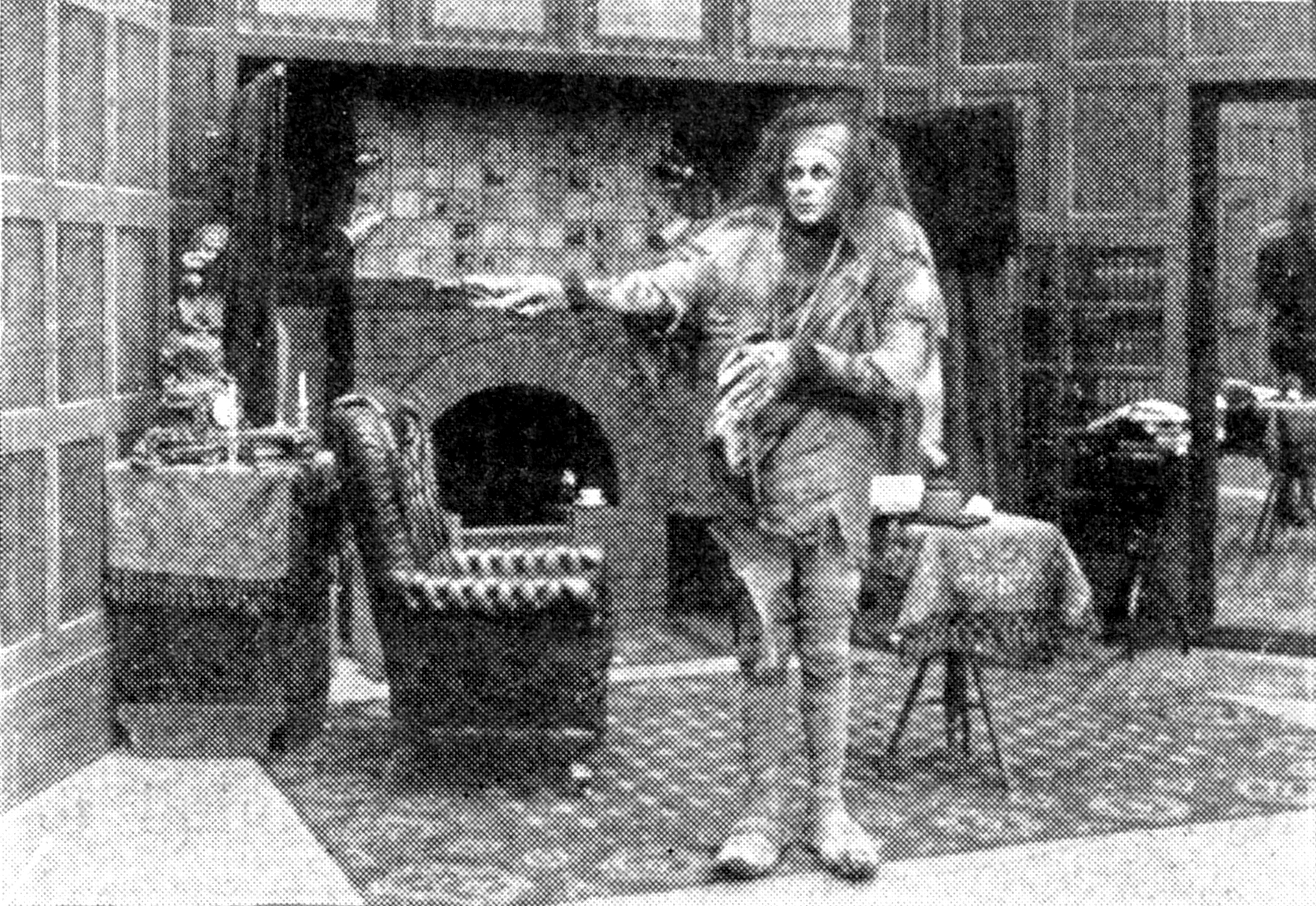 A still from the film Frankenstein (1910), showing Charles Stanton Ogle as the monster.